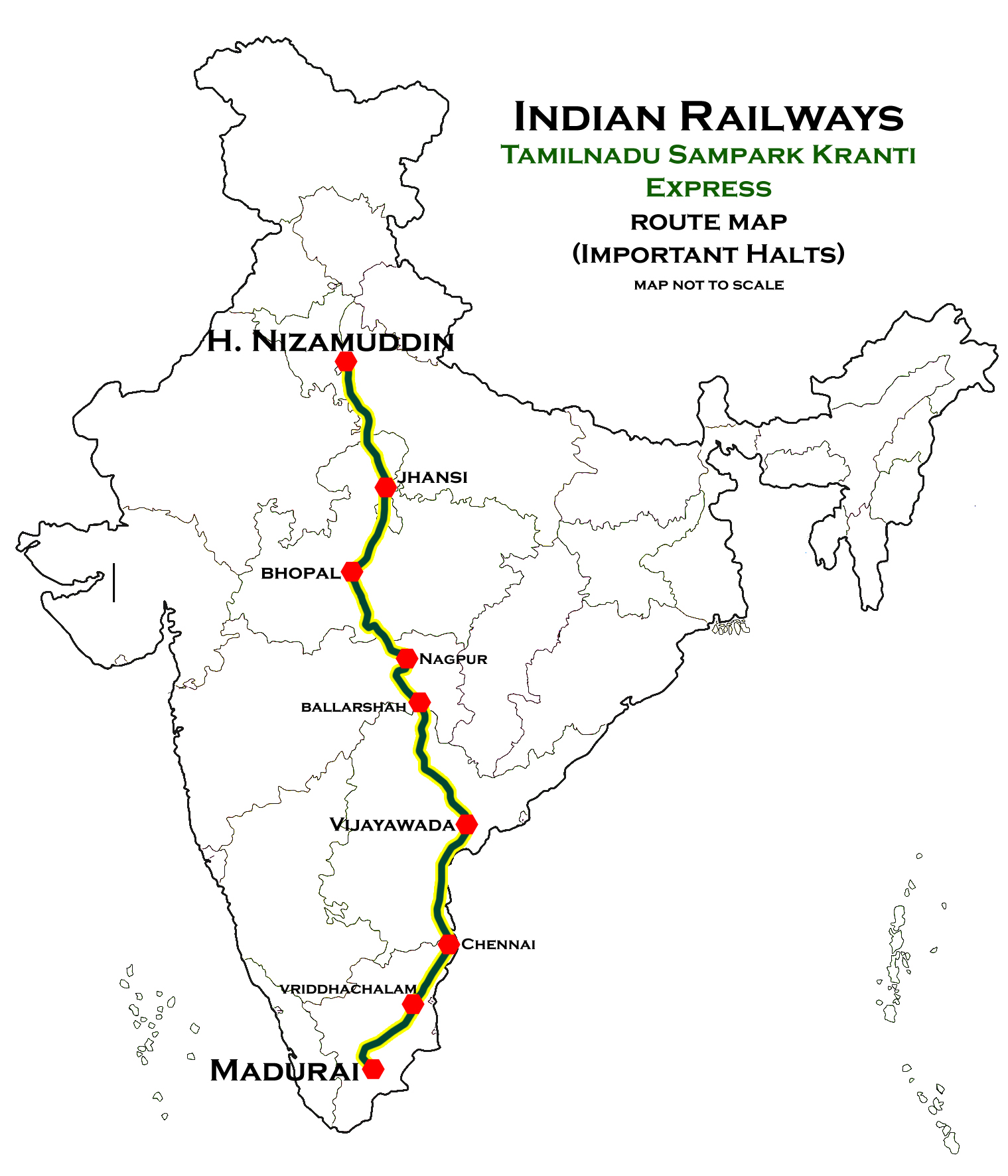 Tamil Nadu Samparkkranti Express (NZM - MDU) Route map